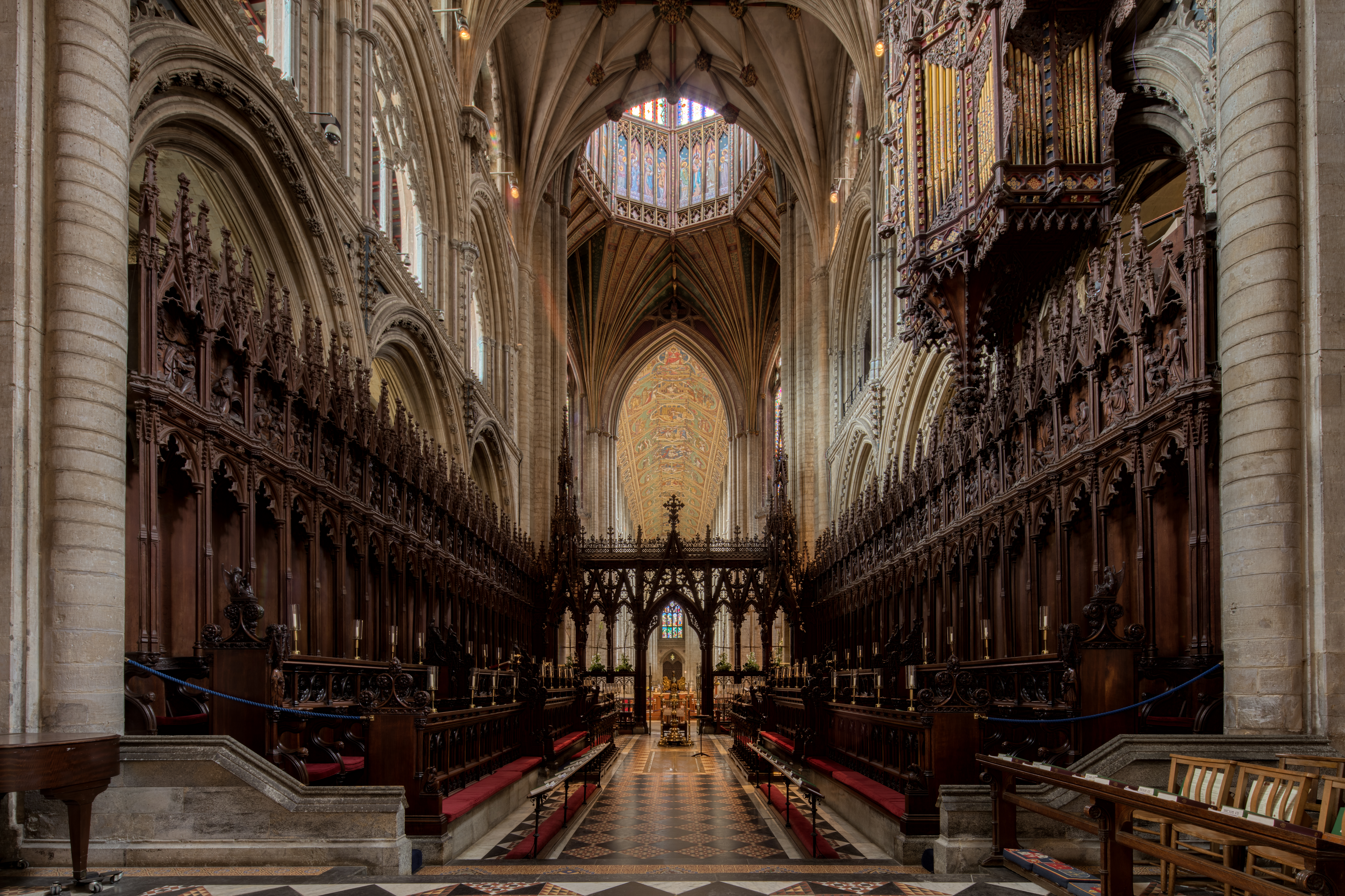 Here is an hdr photograph taken from the choir looking west towards the nave inside Ely Cathedral. Located in Ely, Cambridgeshire, England, UK.